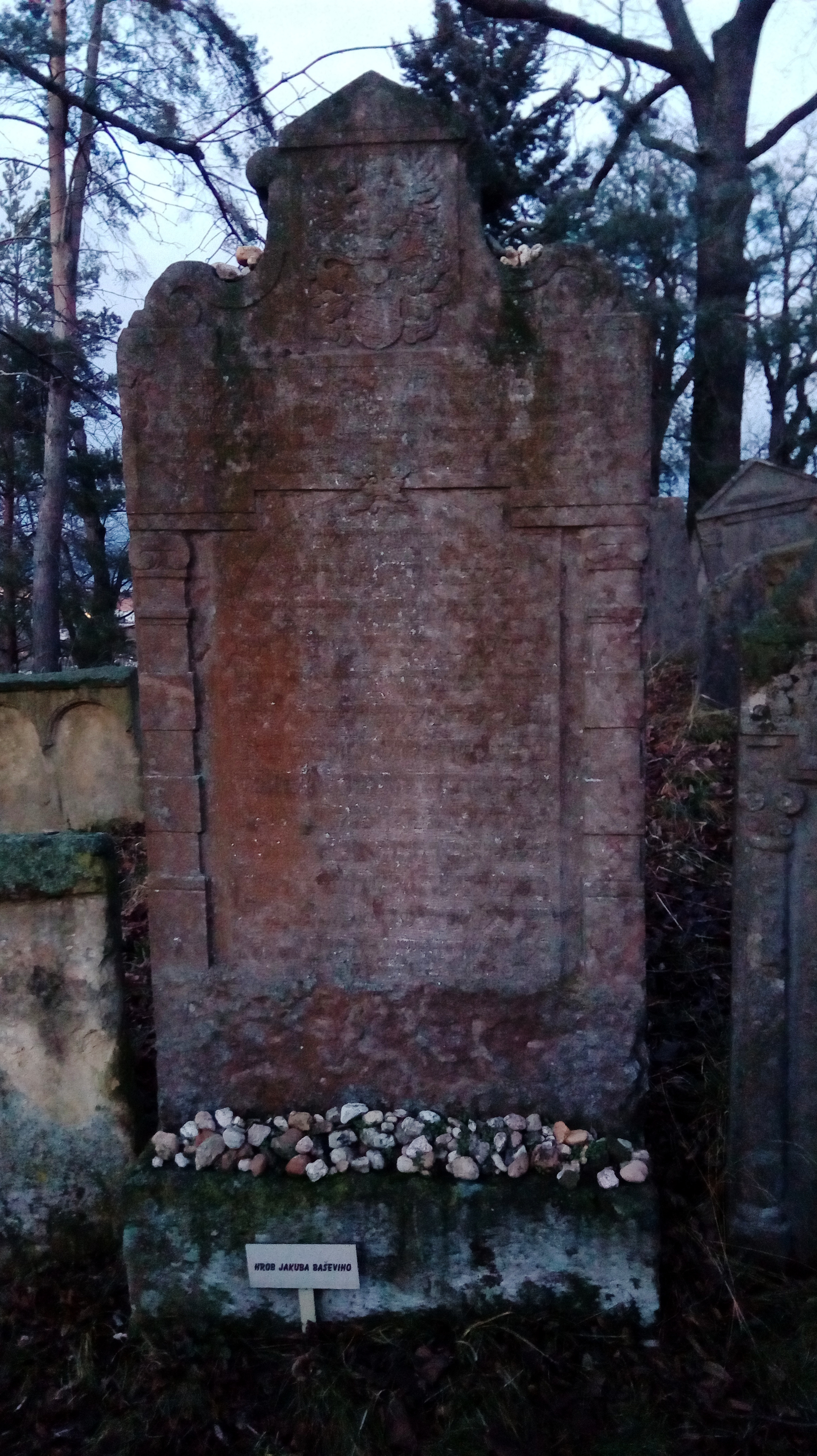 Gravestone of Jacob Bassevi von Treuenberg in the Jewish cemetery in Mladá Boleslav, Czechia